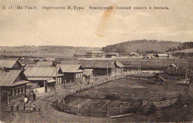 Railway station Nizhnyaya Tura, beg. XX cent.